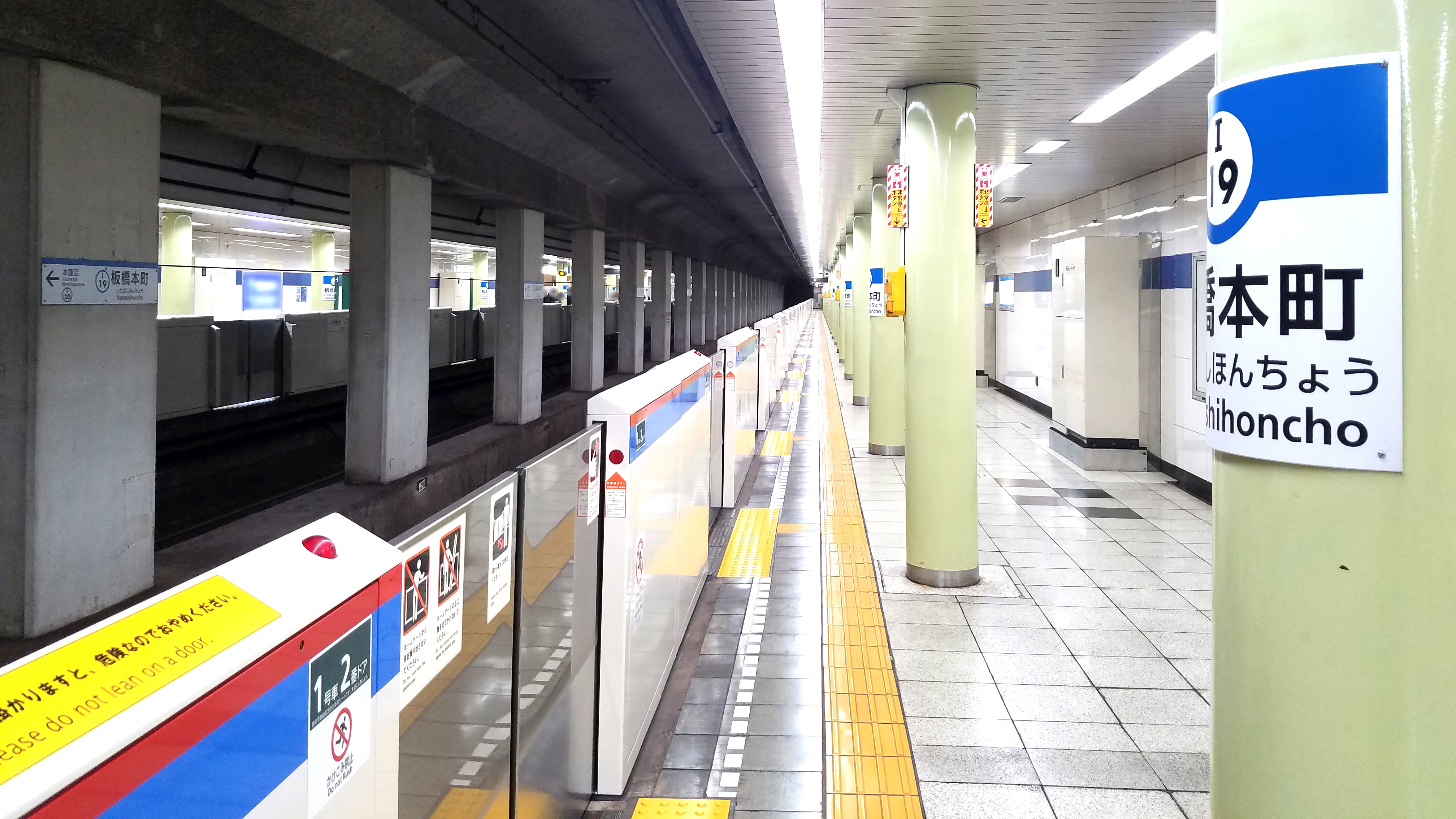 The platforms at Itabashihoncho Station on the Toei Mita Line in Itabashi city, Tokyo, Japan